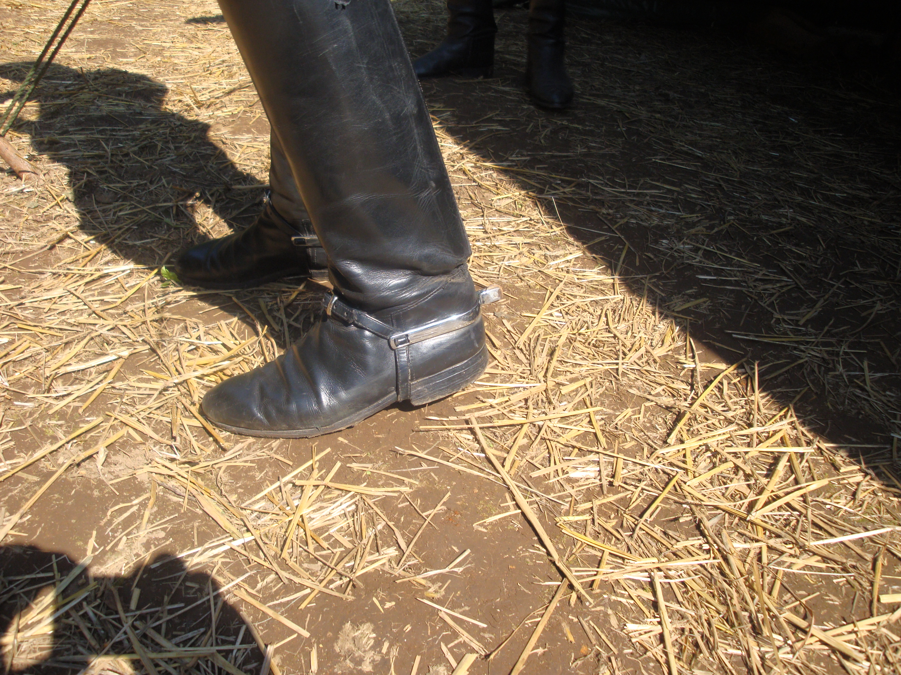 Spurs on uhlan's boots